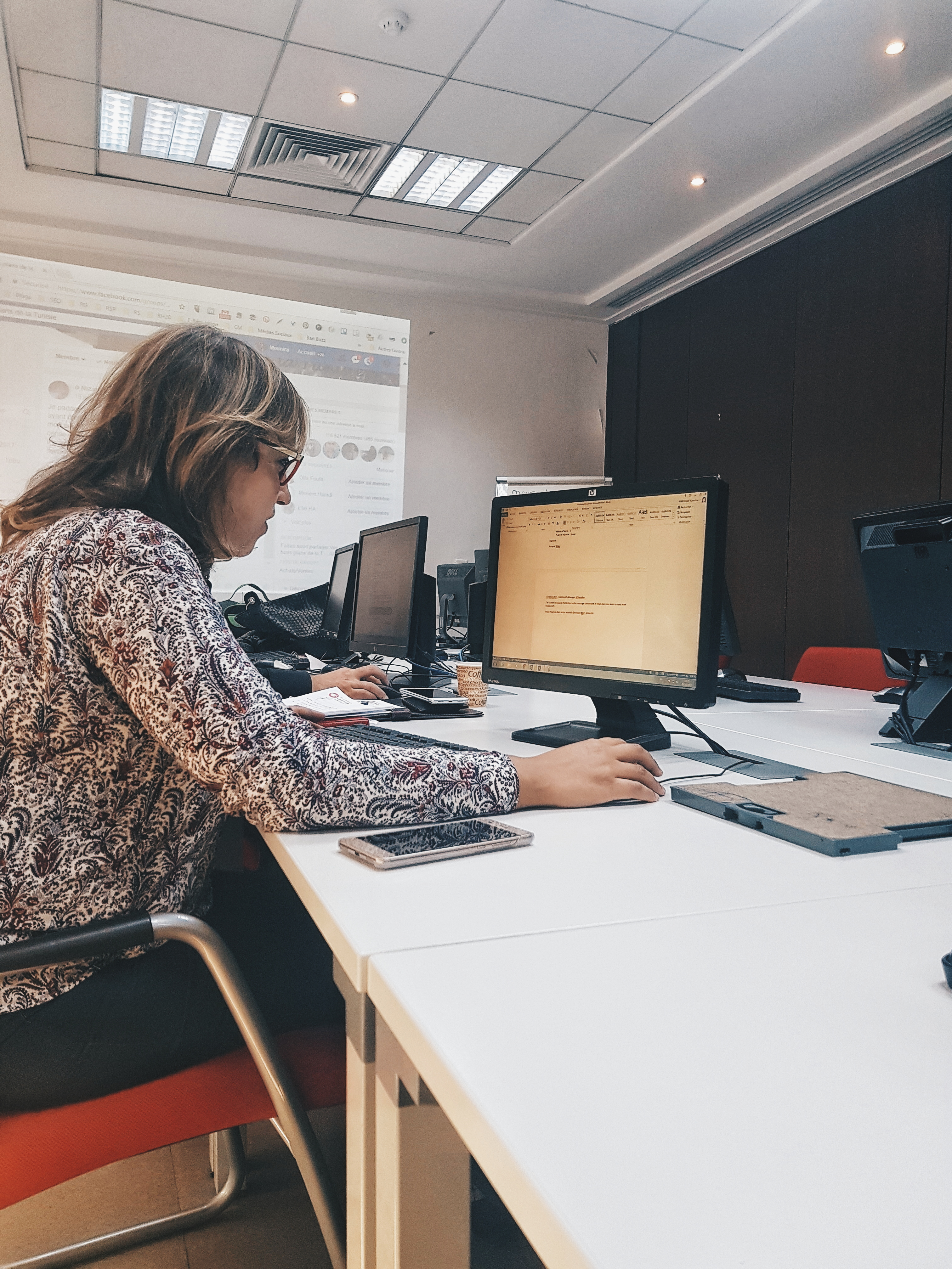 A woman working in telecommunication company in Tunisia This is an image of "African people at work" from Tunisia